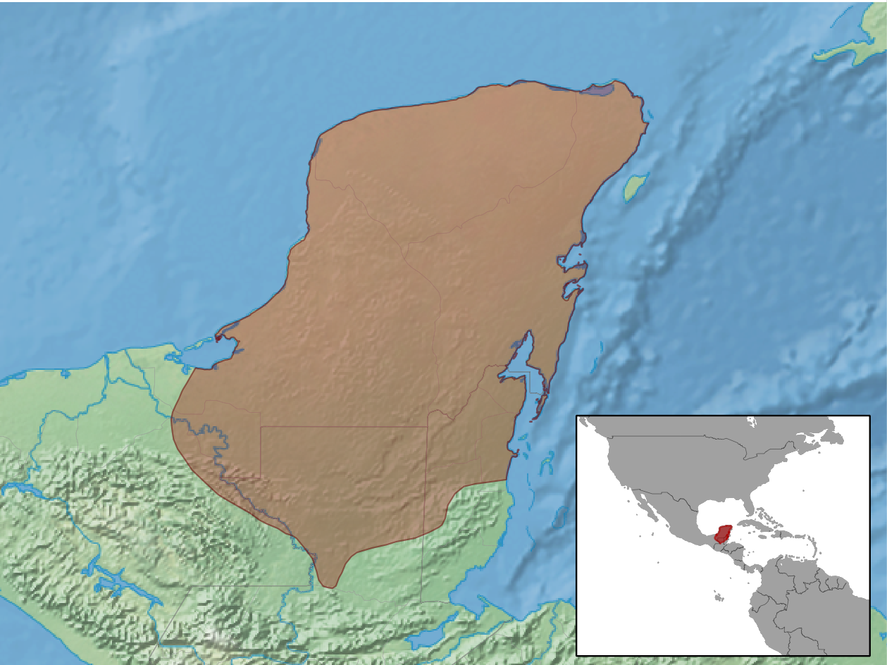 geographic distribution of Mesoscincus schwartzei